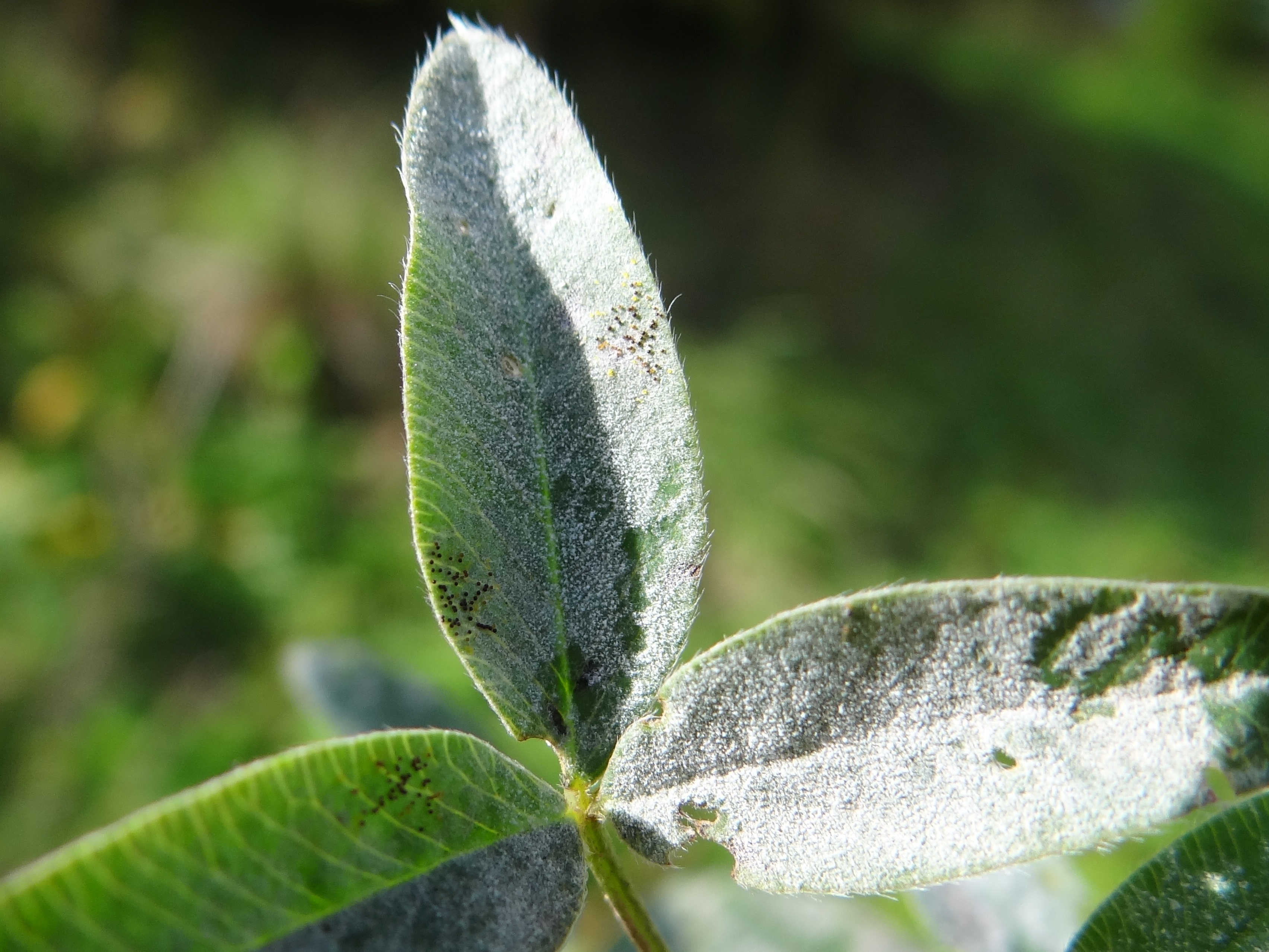 Erysiphe trifolii on Lotus corniculatus